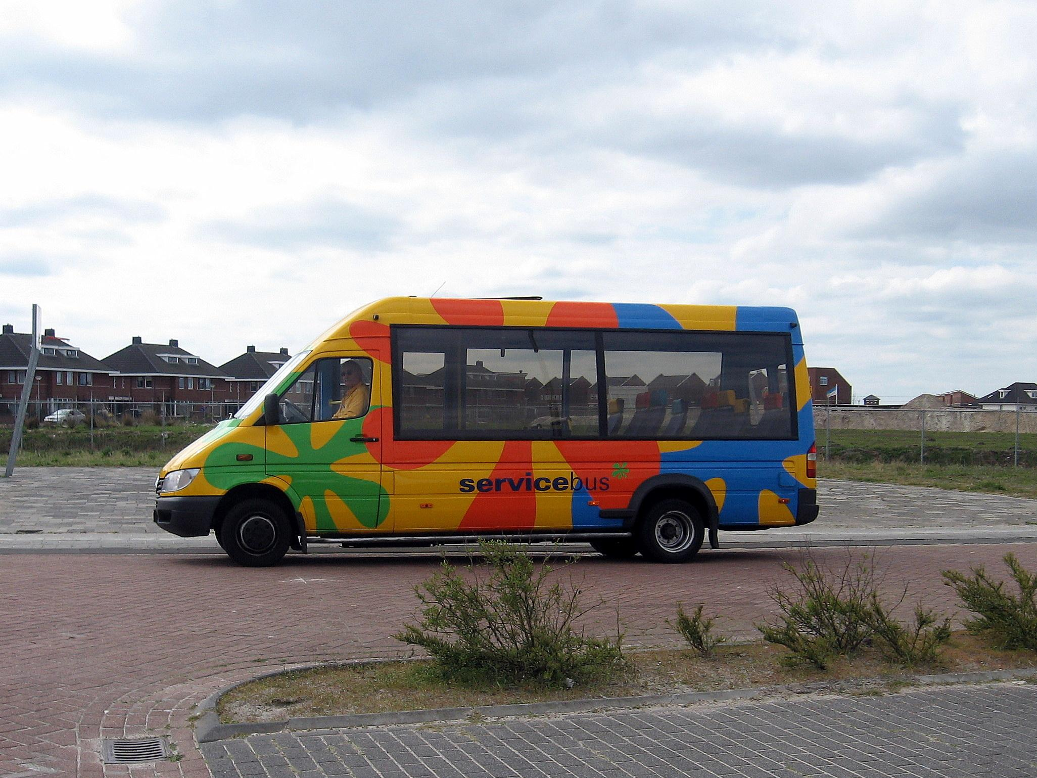 The "Servicebus" in Assen, The Netherlands